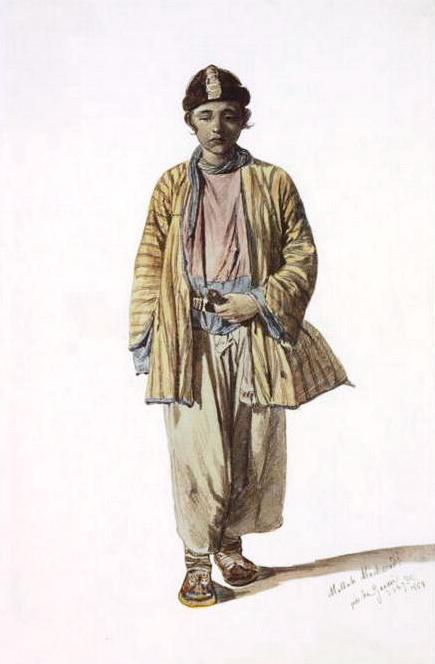 "A Muslim Ingilo", by Theodor Horschelt. From the album published in St. Petersburg in 1896